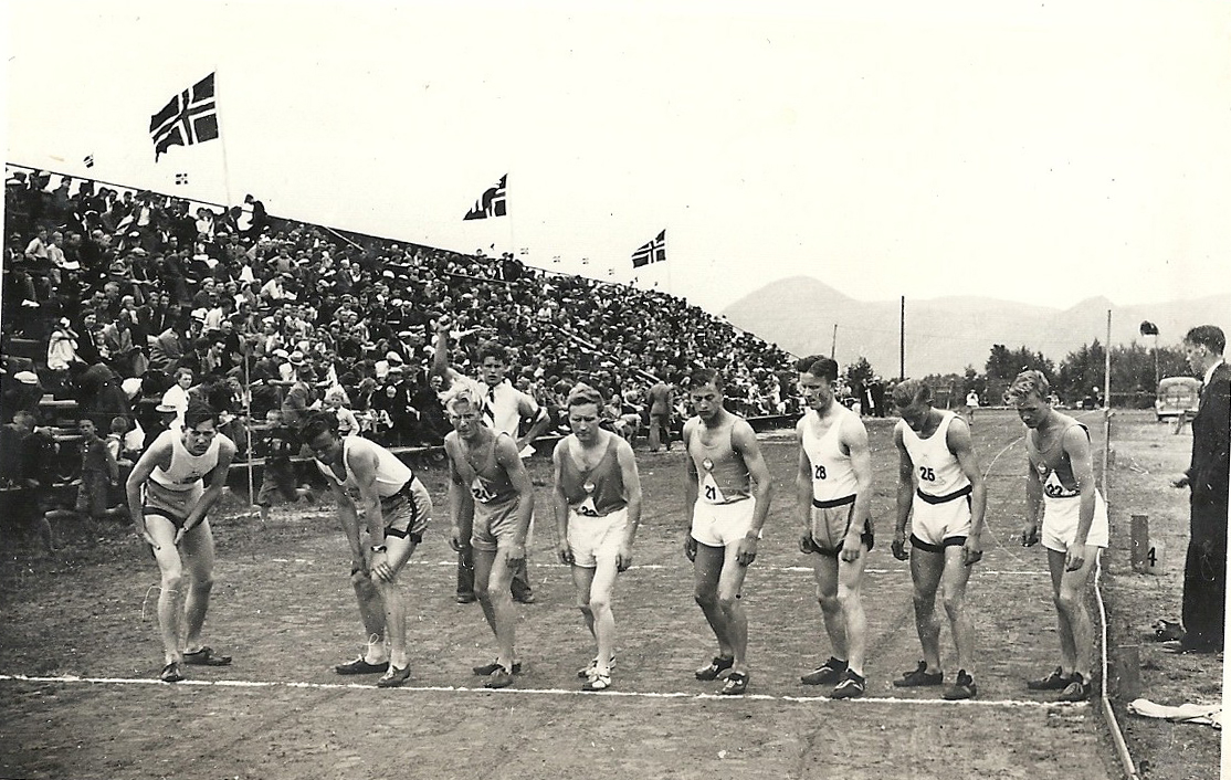 Athletics at Sandnes stadium, ca 1930